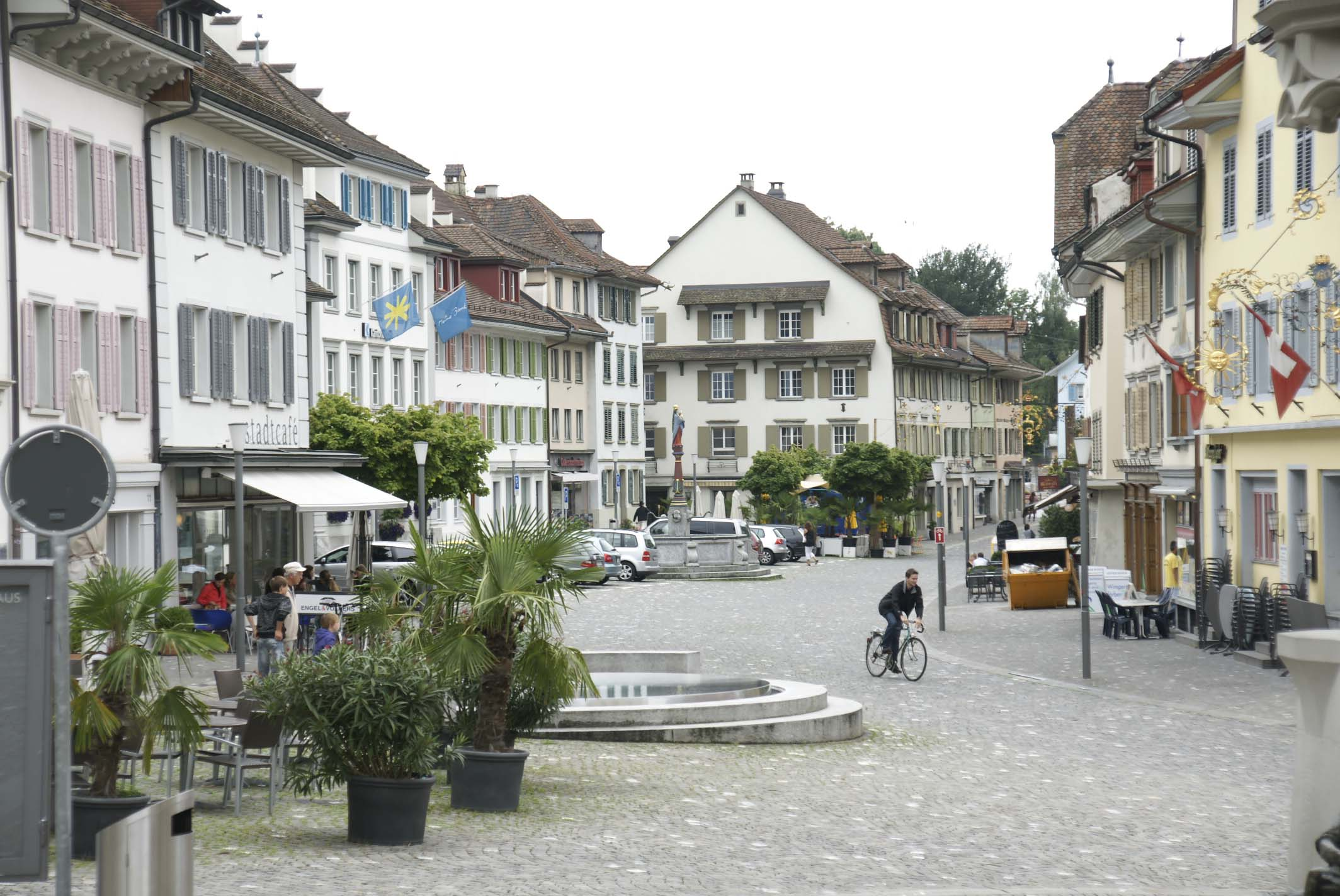 Sursee